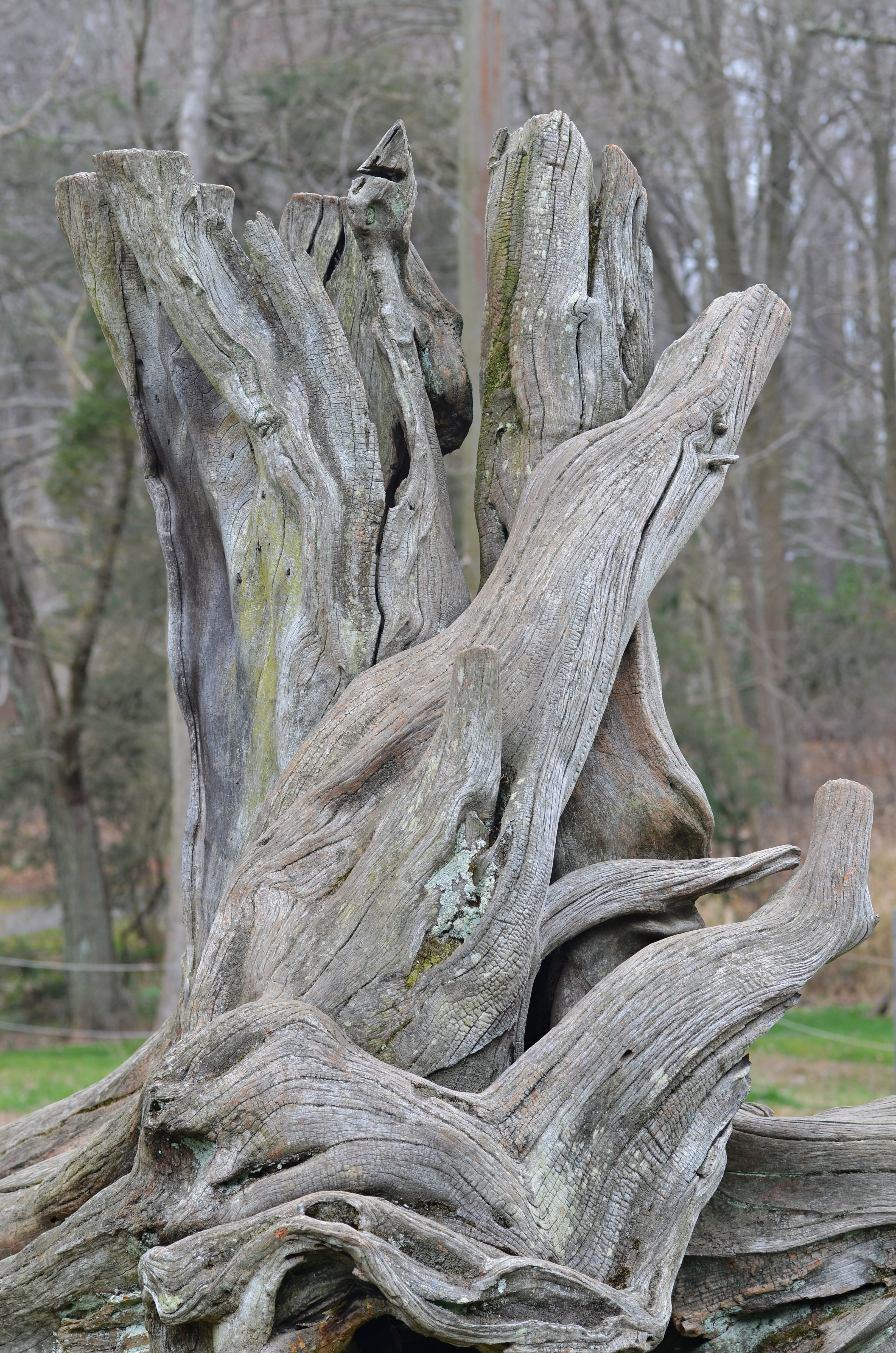 Photograph of a fallen Osage Orangeen (Maclura pomifera en ). Photo taken at the Tyler Arboretum where its species was identified. The tree fell in 1954 during a hurricane.